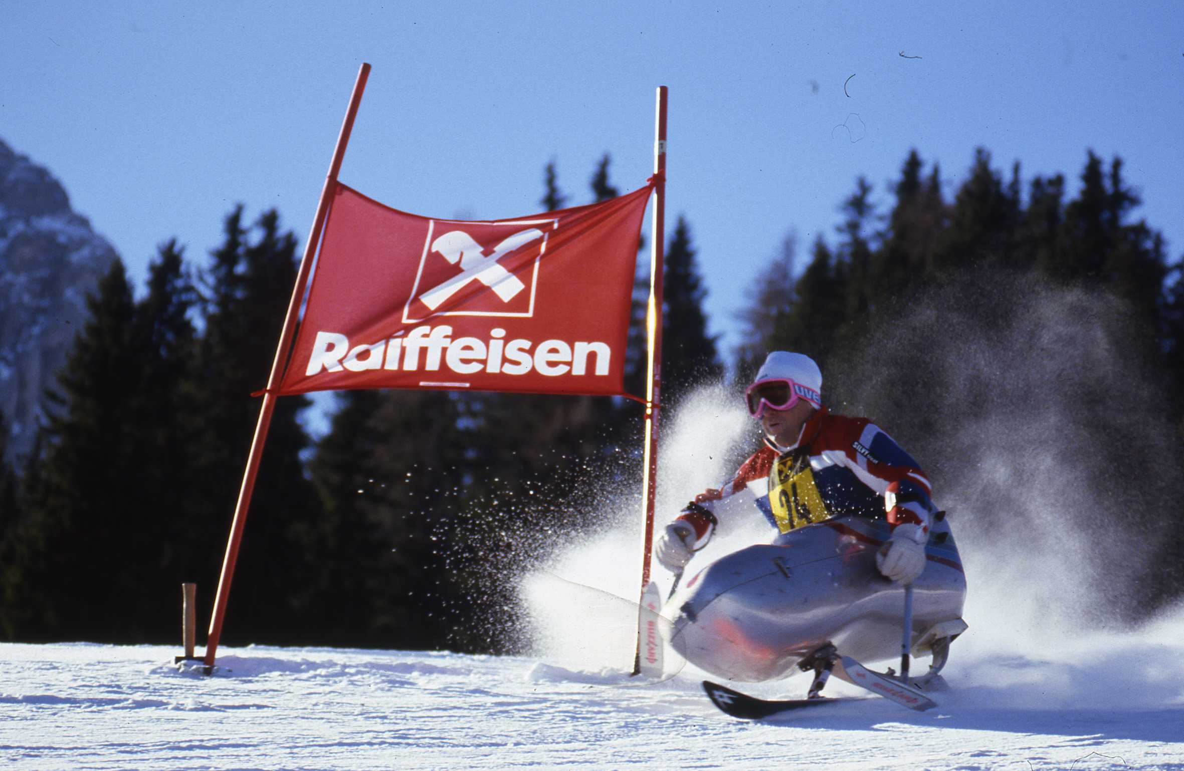 Australian Paralympic Committee